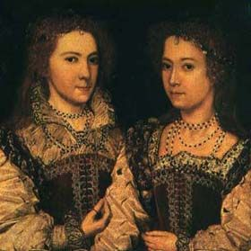 Portrait identified by a later inscription as Dorothy and Penelope Devereux, daughters of Walter Devereux, 1st Earl of Essex and his wife Lettice Knollys. Now at Longleat House.